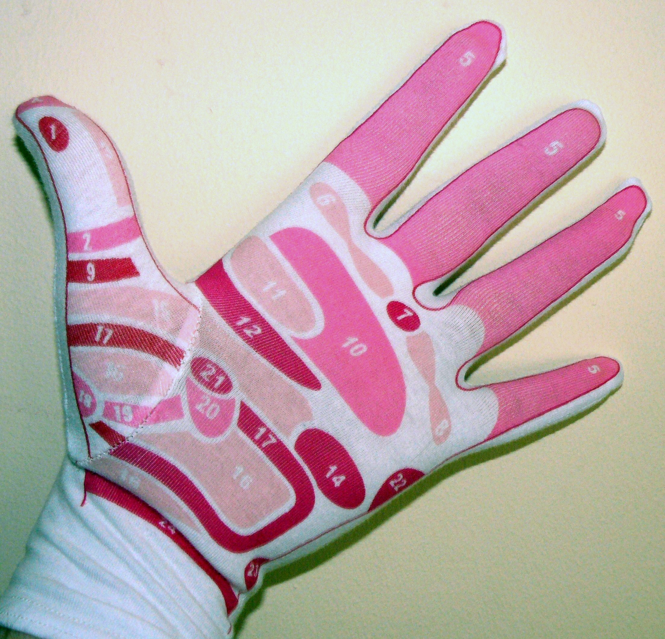 Points of Reflexology 1. Pituitary 2. Neck 3. Side of head and Brain 4. Top of head and Brain 5. Sinus 6. Eye 7. Eustachian tube 8. Ear 9. Thyroid 10. Lung 11. Heart 12. Solar Plexus 13. Liver 14. Spleen 15. Stomach and Pancreas 16. Small Intestine 17. Colon 18. Bladder 19. Ureter tube 20. Kidney 21. Adrenal 22. Shoulder 23. Ovary/testes 24. Sciatic Nerve